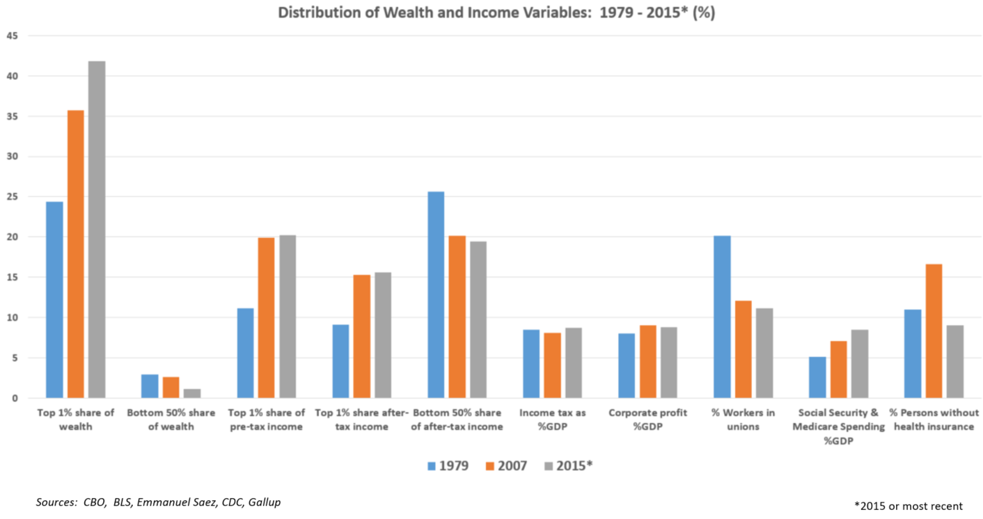 This bar chart compares several economic variables in 1979, 2007, and 2015 related to the distribution of wealth and income in the United States.